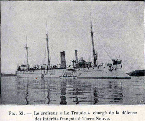 French light cruiser Troude